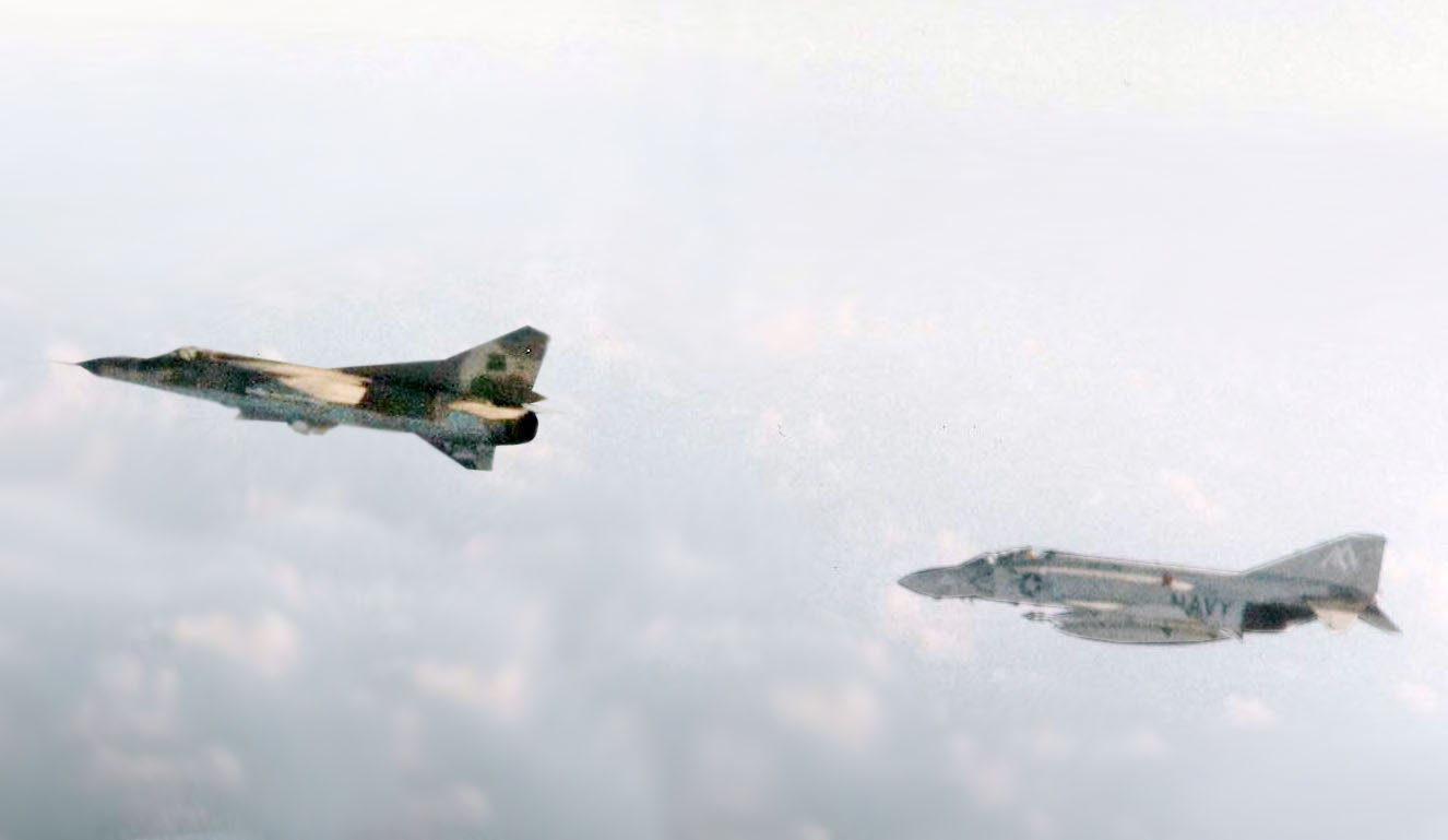 A U.S. Navy McDonnell F-4J Phantom II of Fighter Squadron VF-74 Be-Devilers escorting a Libyan Mikoyan-Gurevich MiG-23 over Gulf of Sidra in August 1981. VF-74 was assigned to Carrier Air Wing 17 (CVW-17) aboard the aircraft carrier USS Forrestal (CV-59) for a deployment to the Mediterranean Sea from 2 March to 15 September 1981. On 19 August 1981, two Libyan Sukhoi Su-22 attack aircraft fired upon and were subsequently shot down by two U.S. Navy Grumman F-14A Tomcats of VF-41, assigned to CVW-8 aboard the USS Nimitz (CVN-68).